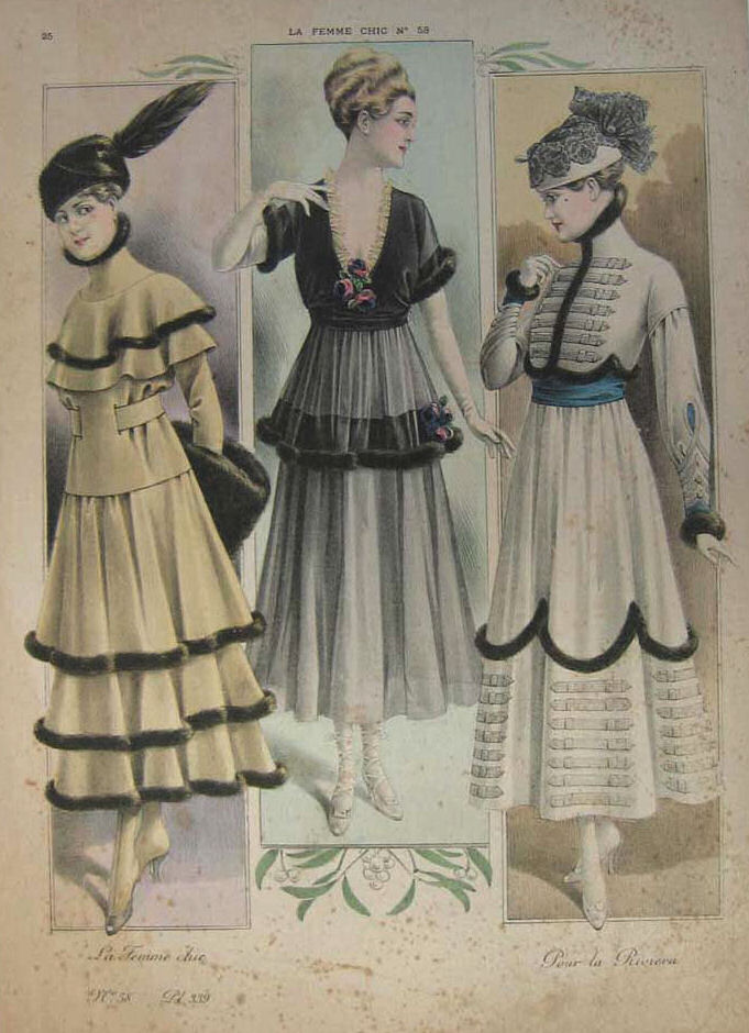 Fashion illustration from La Femme Chic